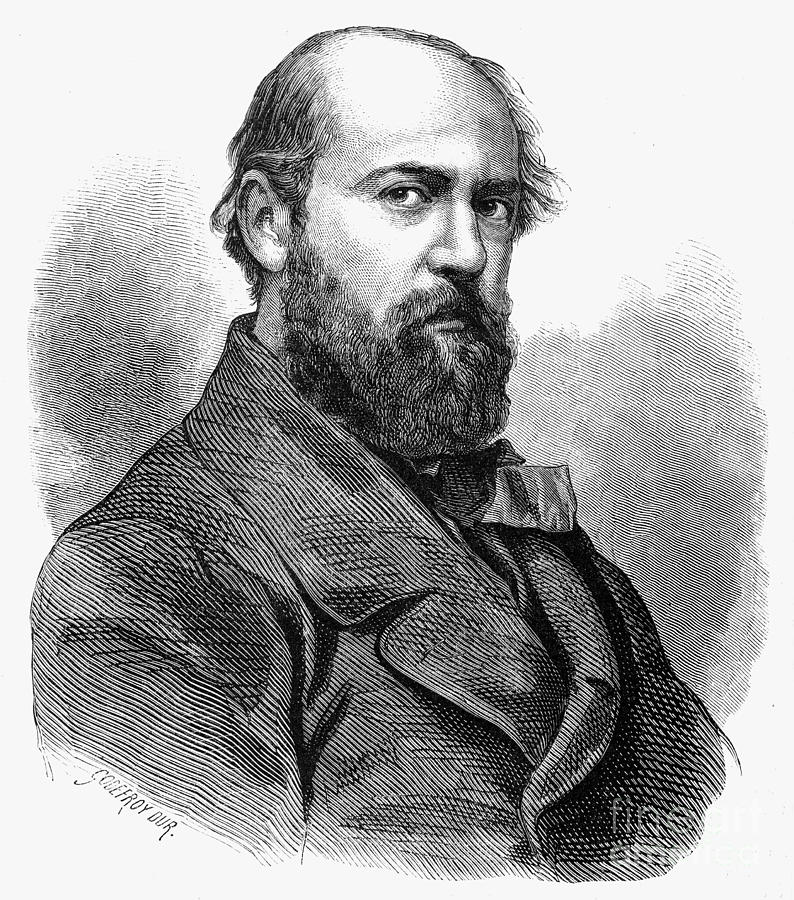 Engraving of Henri Murger, 1854